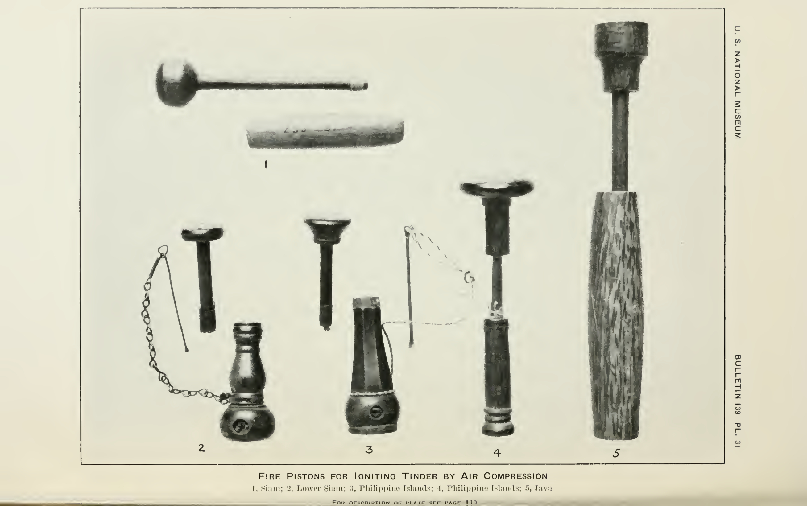 Collection of Fire pistons in South-East Asia.